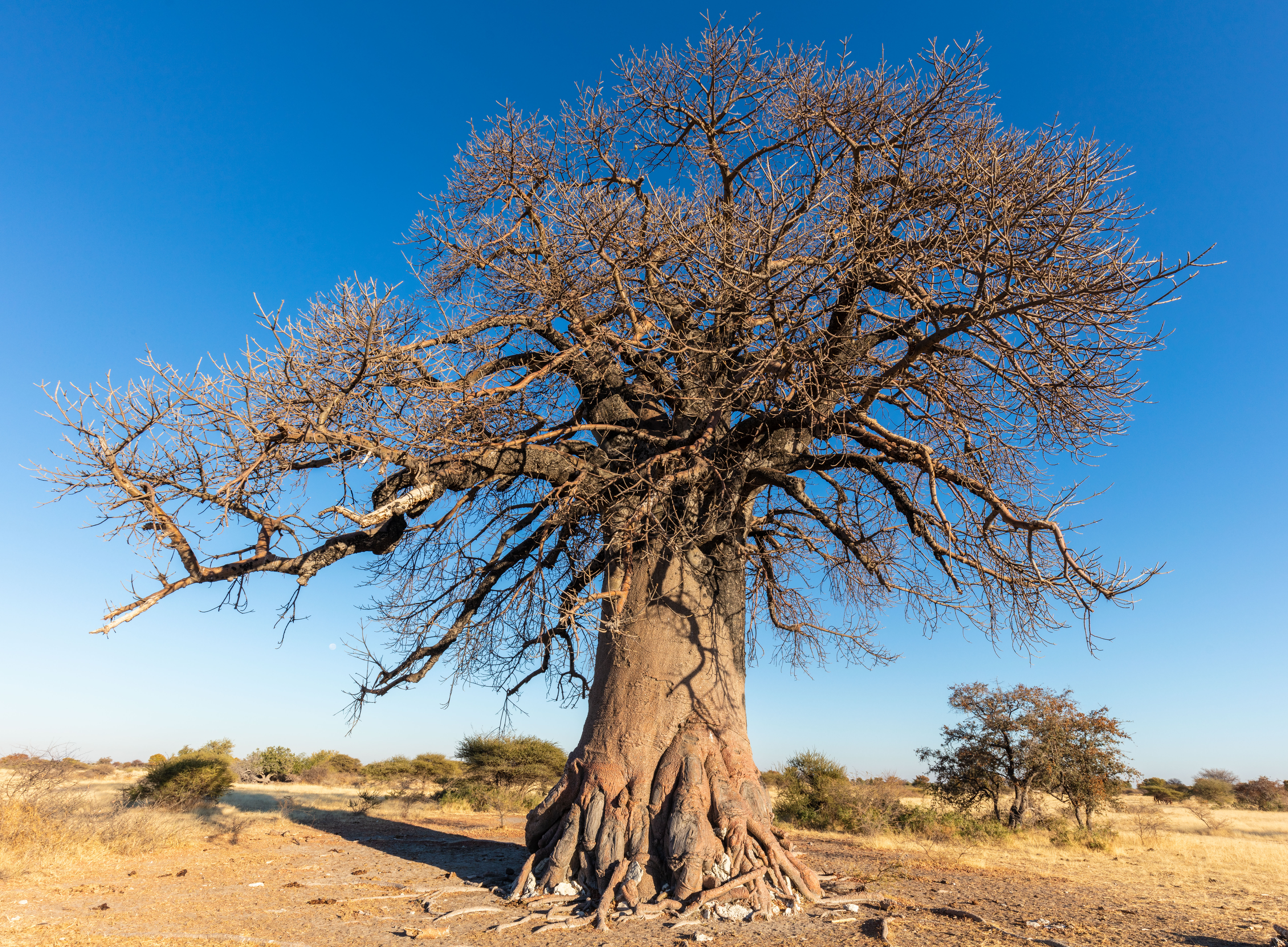 Baobab (Adansonia digitata), Makgadikgadi Pans National Park, Botswana